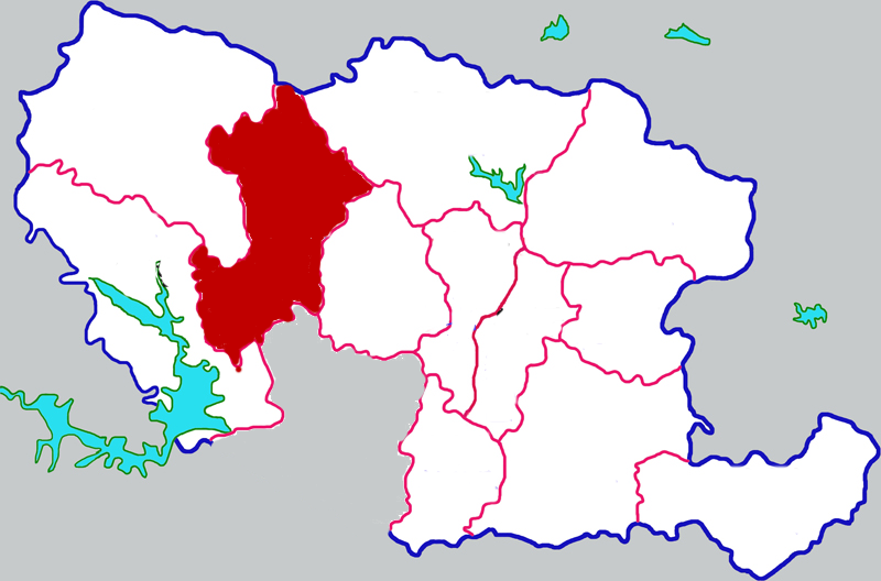 Location of Neixiang county in Nanyang city, China